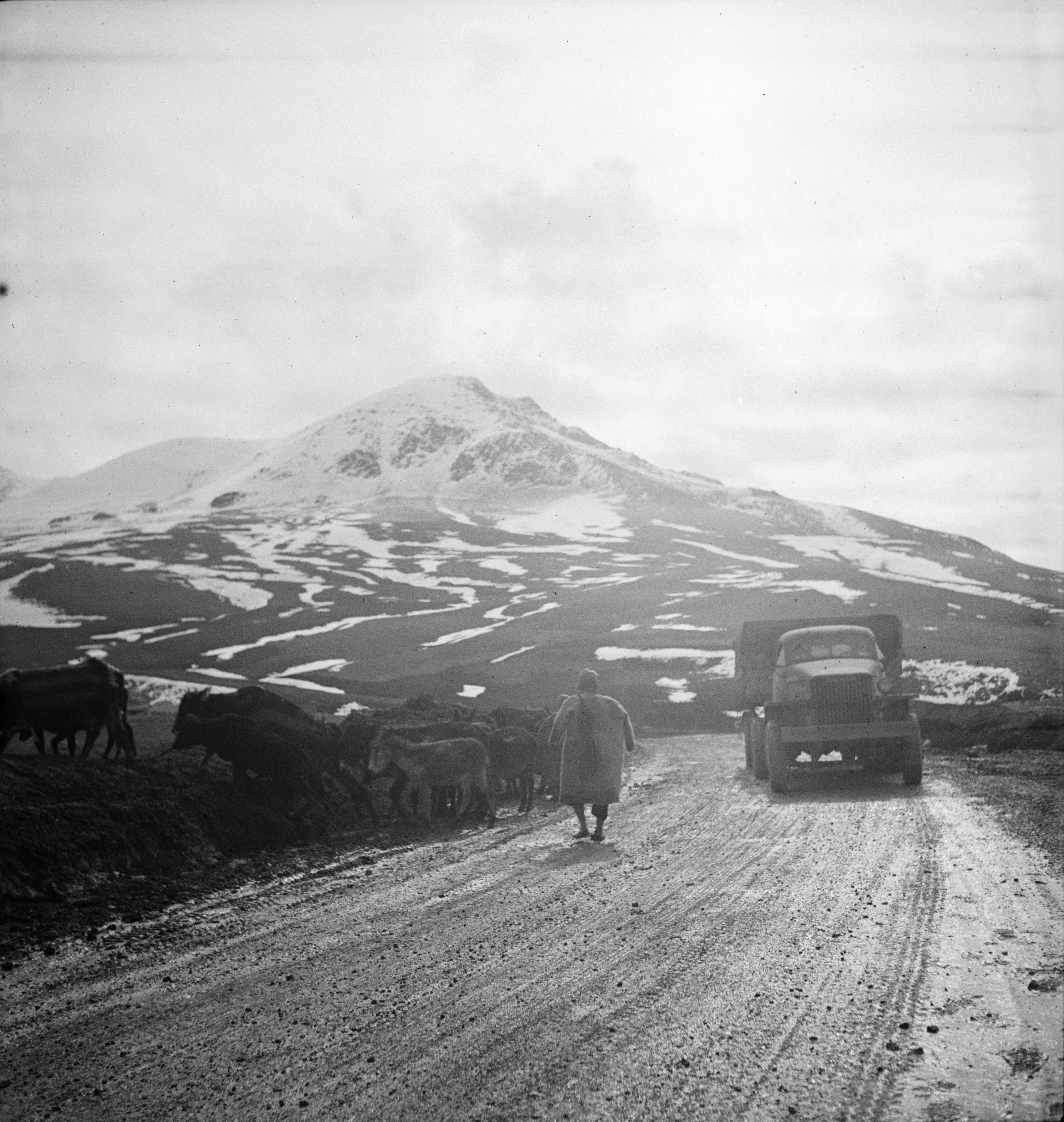 Somewhere in the Persian corridor. A United States Army truck convoy carrying supplies for the aid of Russia. An Iranian native moving his livestock from the mountain road as a United States truck passes